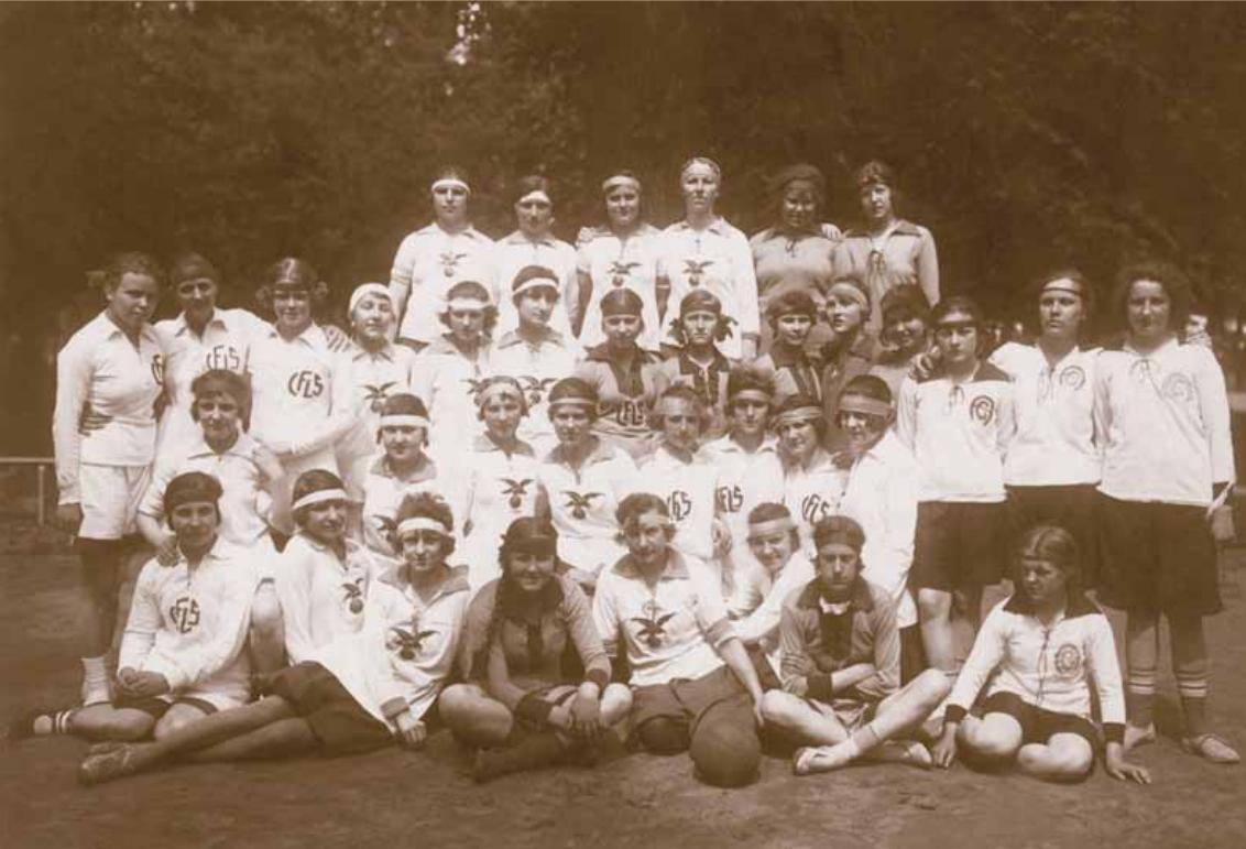 One of the very first basketball players in Lithuania. The LFLS, Moterų Sporto Mėgėjų Ratelis (MSMR) and Aušra gymnasium players.